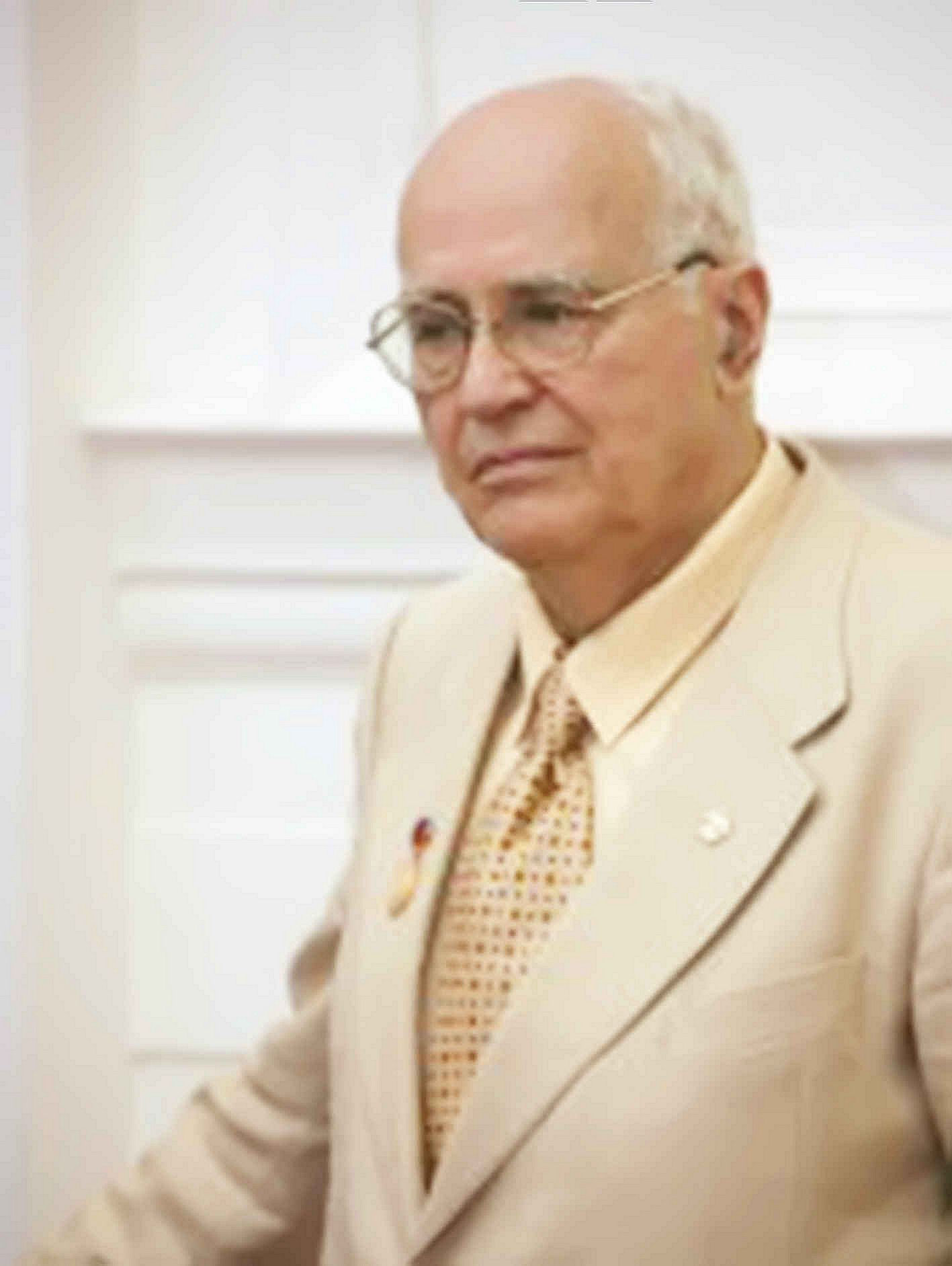 The known modern soviet and post-soviet scientist, art critic